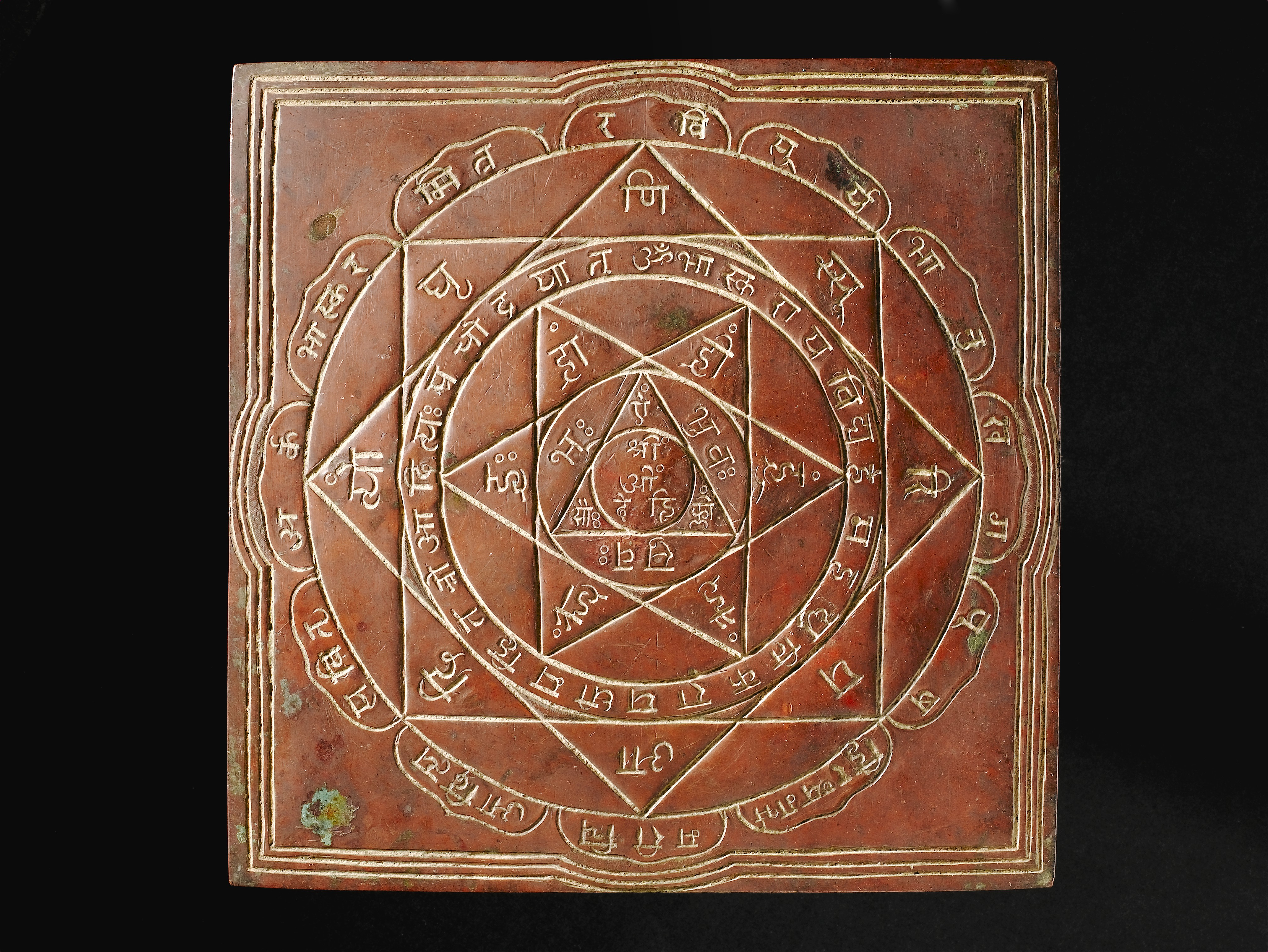 Yantra mediation uses shapes and symbols engraved on to plaques to focus the mind. Mediation and yoga are recommended as part of an Ayurvedic lifestyle. Ayurveda is a Hindu medical traditional that aims to preserve and restore balance in the body through holistic treatments including diet and exercise. maker: Unknown maker Place made: India Wellcome Images Keywords: Yoga; holism; ayurveda; yantra